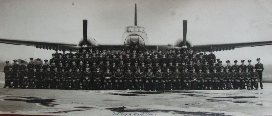 Photograph of No. 203 Squadron RAF in 1954. At this time, the squadron was stationed at RAF Topcliffe flying Lockheed Neptunes. Commanding officer was Sqd Ldr Thomas Welch Horton